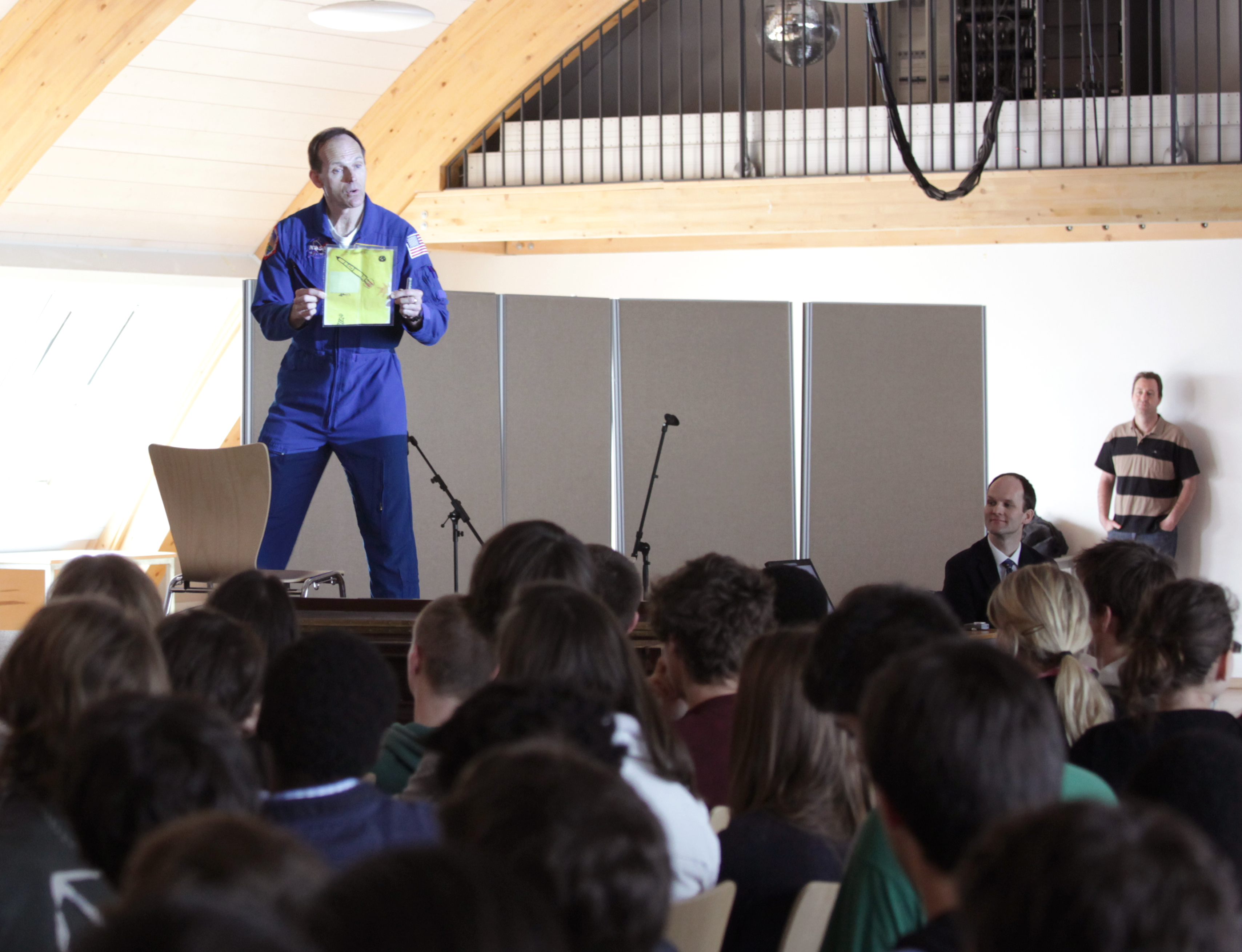 NASA Astronaut Steven Smith visited the U.S. Mission Geneva to share his experience in space and the lessons he's learned in his work on the international space station. He visited schools in the area and encouraged children to follow their dreams whatever obstacles they might face. Mr. Smith also spoke to an audience of scientists and diplomats at the U.S. Mission to discuss the importance of collaboration by the international community in future endeavors into space. U.S. Mission photo: Eric Bridiers